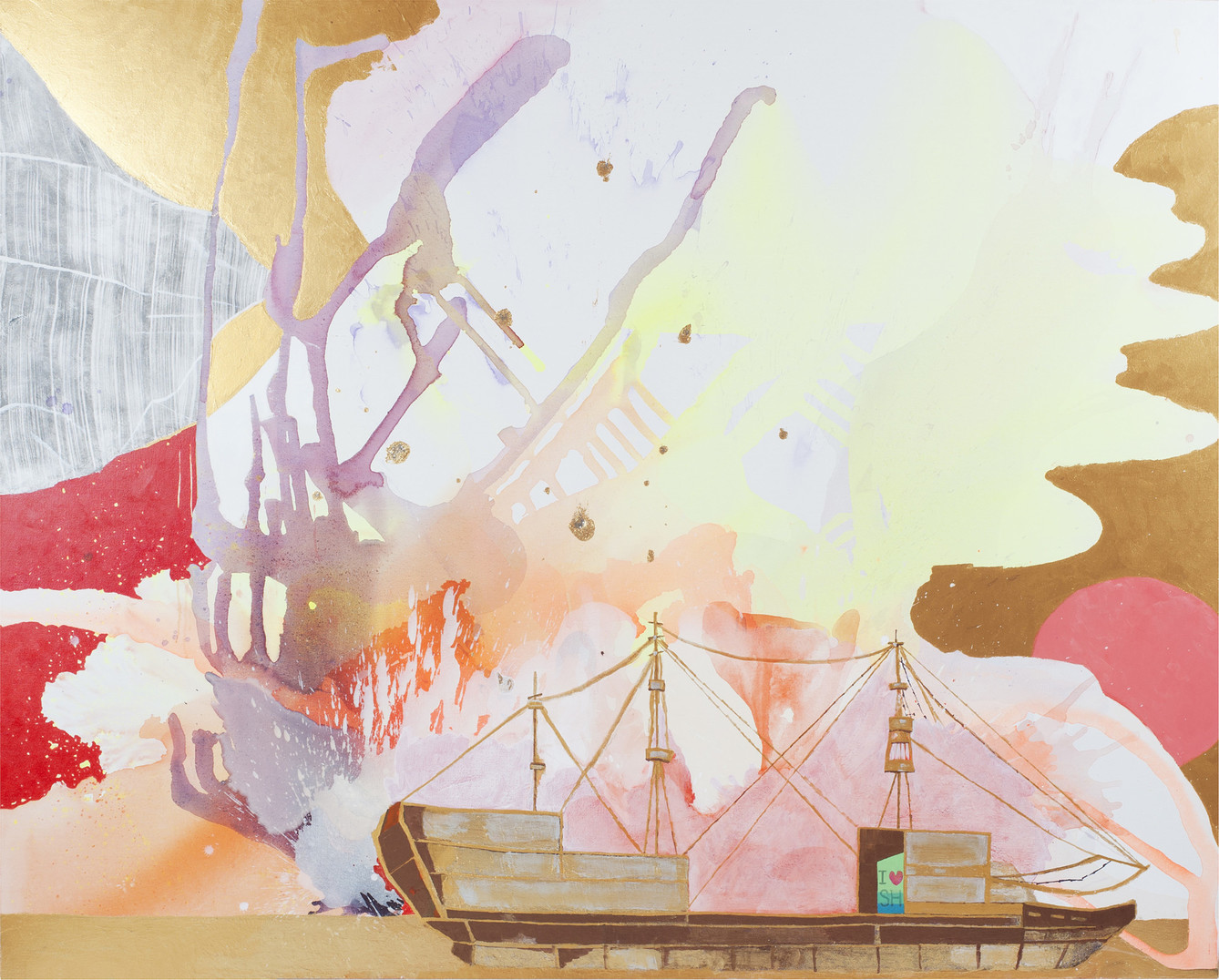 2014, Mixed media on canvas, 79 x 98 inches / 200 x 250 cm Notes on a Landscape, Shanghai